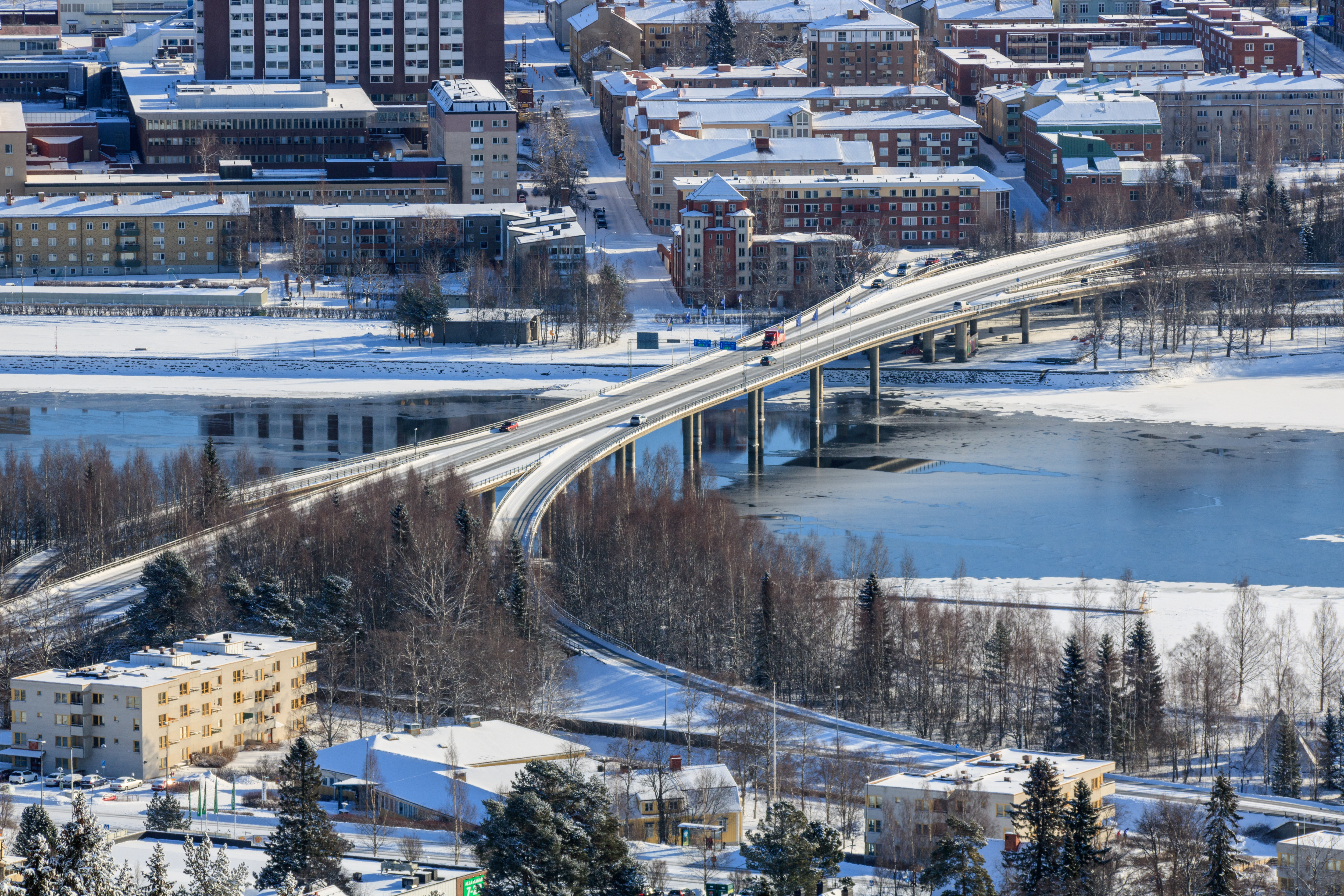 The Frösöbridge between Östersund and Frösön